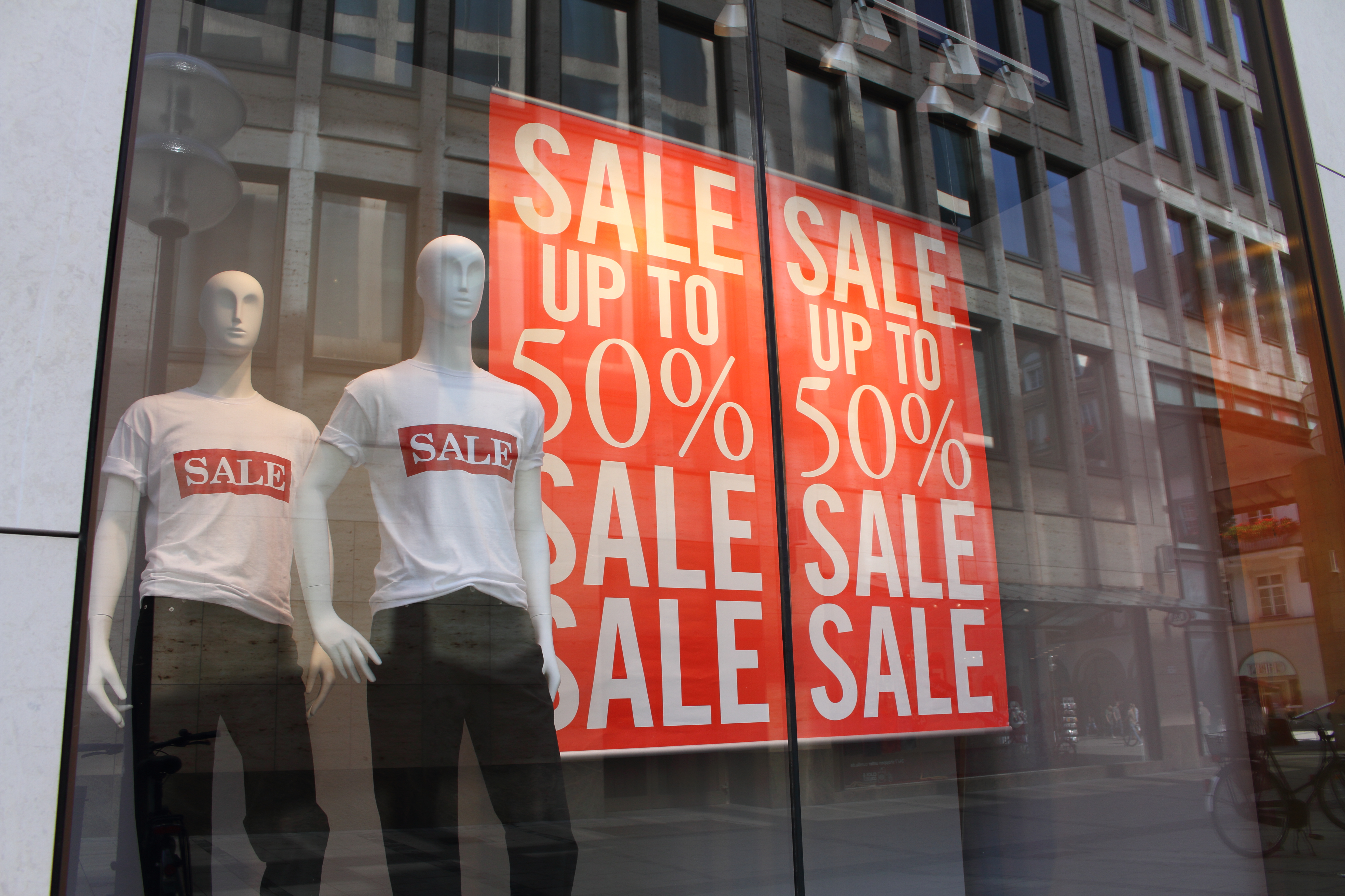 Sales promotion at a shop window in Munich